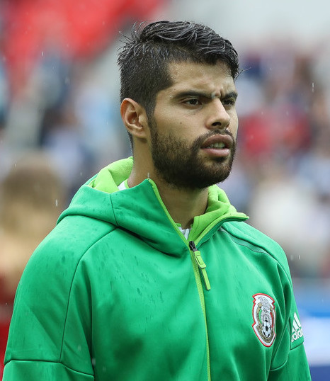 Portugal - Mexico, 2 Jul 2017